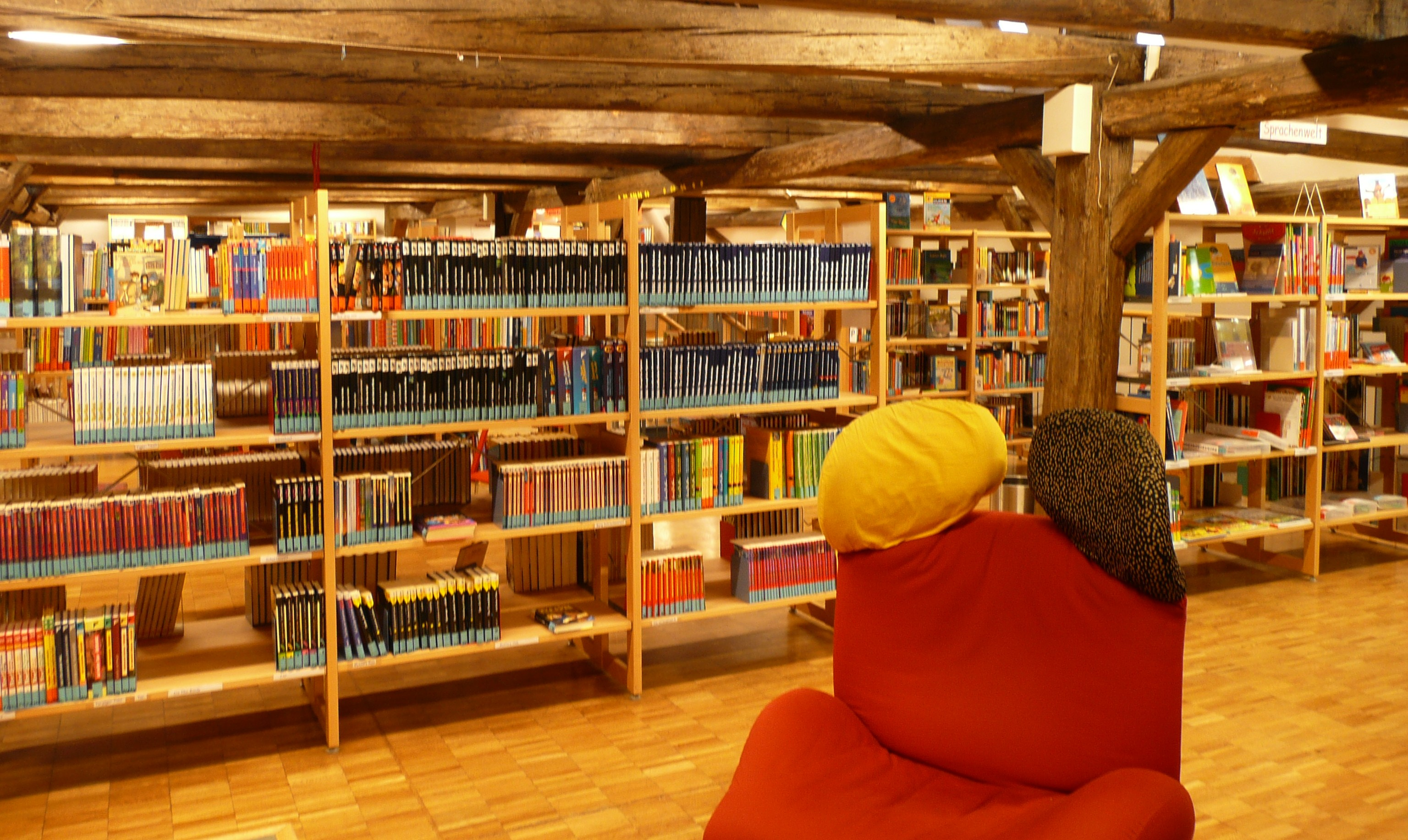 This image shows the public library in Pirna in Saxony, Germany.